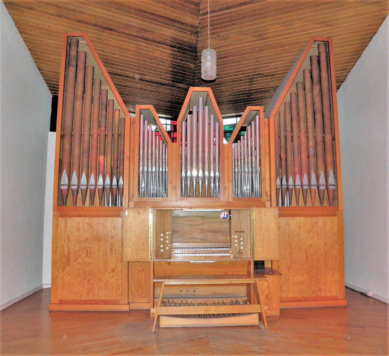 Former church of St. Mary's in Bernkastel-Kues (Germany)